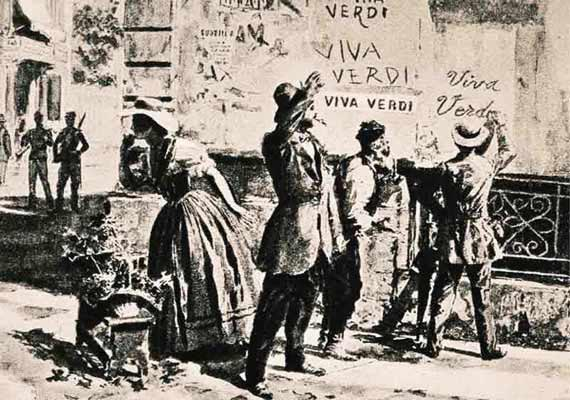 Viva VERDI grafitti